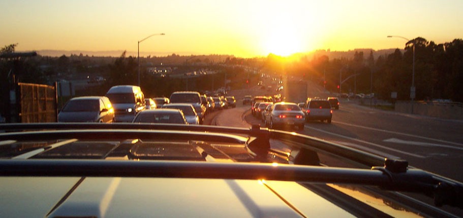 Mac Arthur Freeway 580, 2004